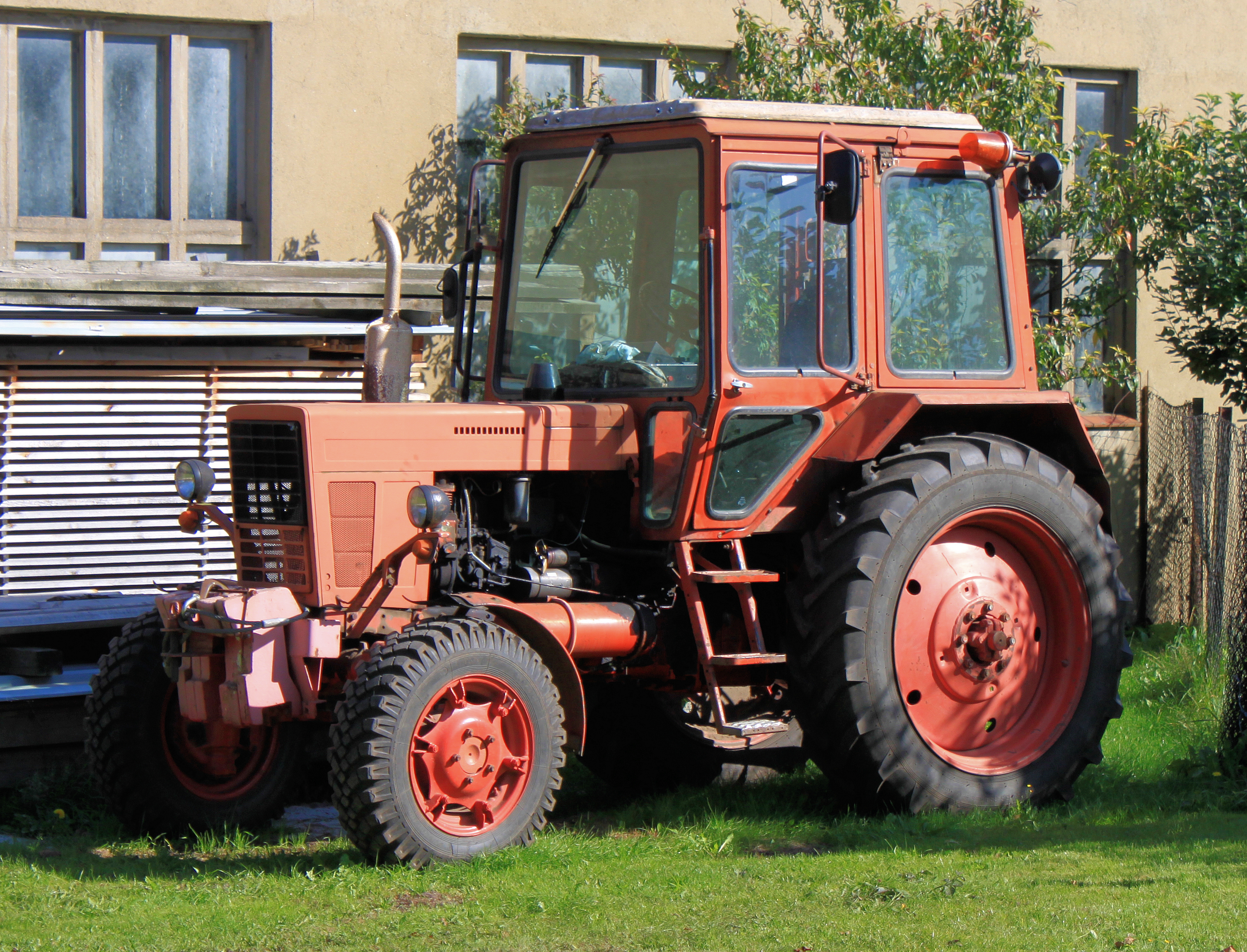 MTZ-82 tractor